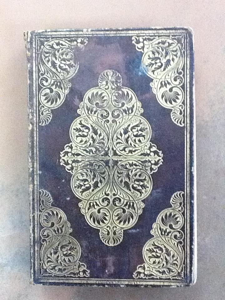 The cover of The Gift: A Christmas and New Year's Present for 1842, published in Philadelphia in 1841 by Carey and Hart. Included in the collection is the first appearance of the short story "Eleonora" by Edgar Allan Poe.